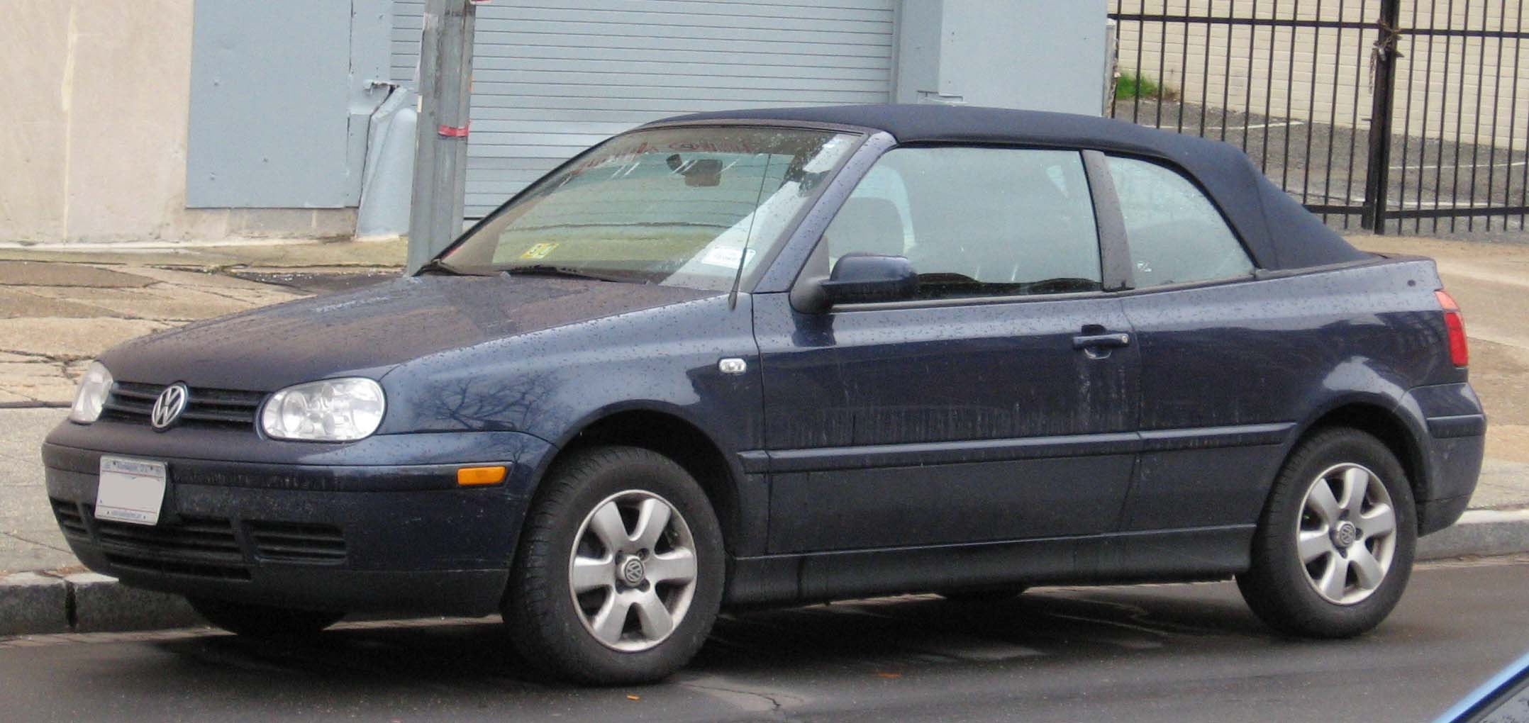 Volkswagen Golf Cabrio photographed in USA.